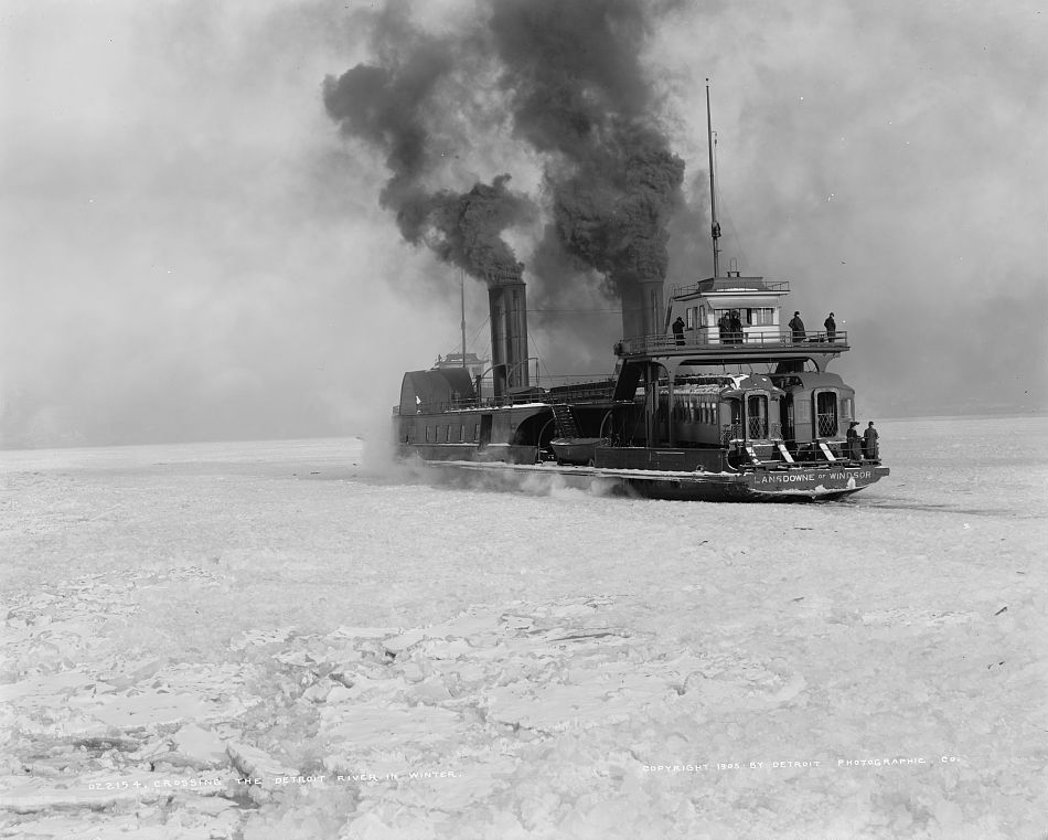 SS Lansdowne crossing the Detroit River in winter.